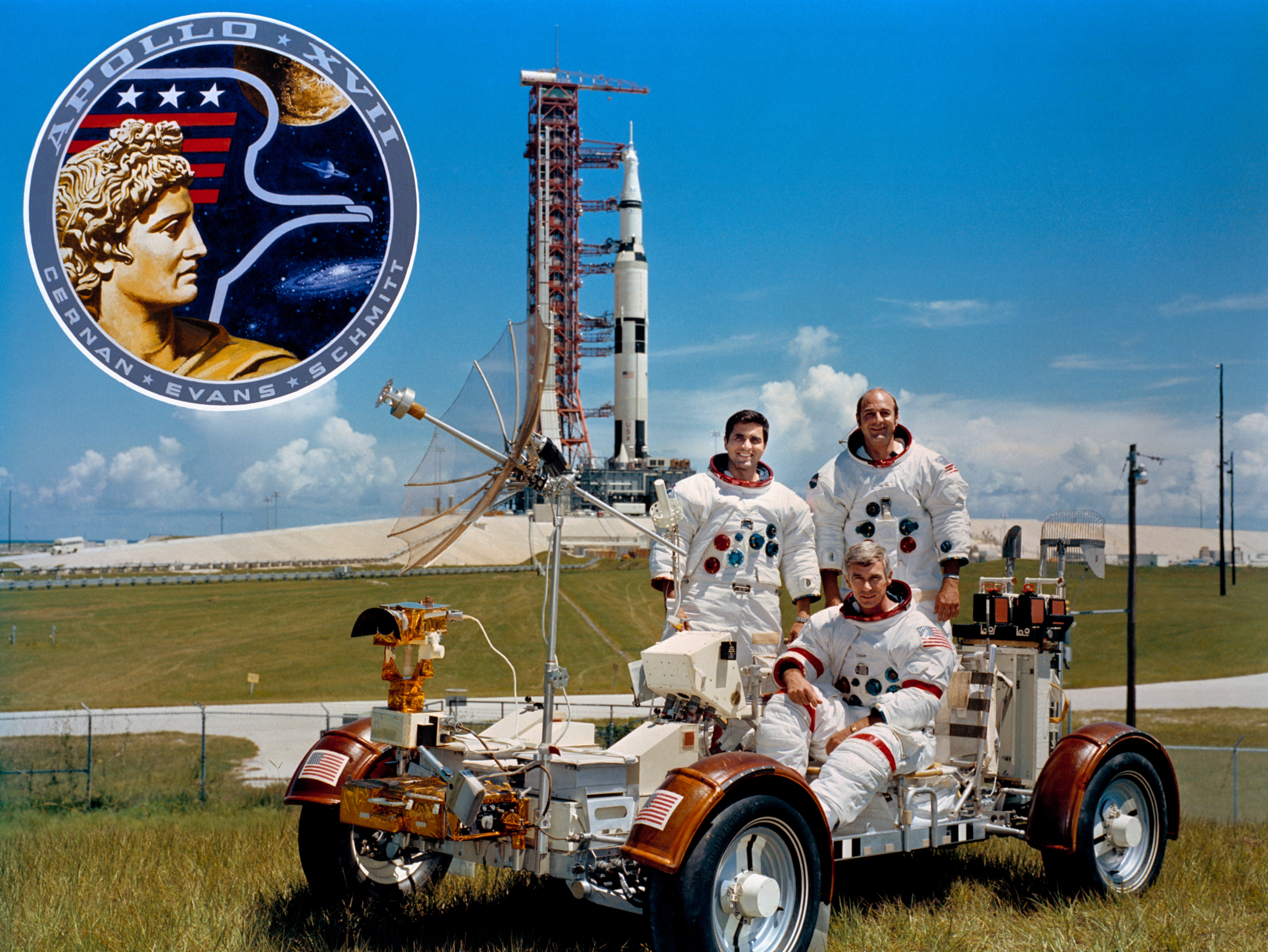 The prime crew for the Apollo 17 lunar landing mission are: Commander, Eugene A. Cernan (seated), Command Module pilot Ronald E. Evans (standing on right), and Lunar Module pilot, Harrison H. Schmitt. They are photographed with a Lunar Roving Vehicle (LRV) trainer. Cernan and Schmitt will use an LRV during their exploration of the Taurus-Littrow landing site. The Apollo 17 Saturn V Moon rocket is in the background. This picture was taken at Pad A, Launch Complex 39, Kennedy Space Center (KSC), Florida, The Apollo 17 emblem is in the photo insert at upper left.